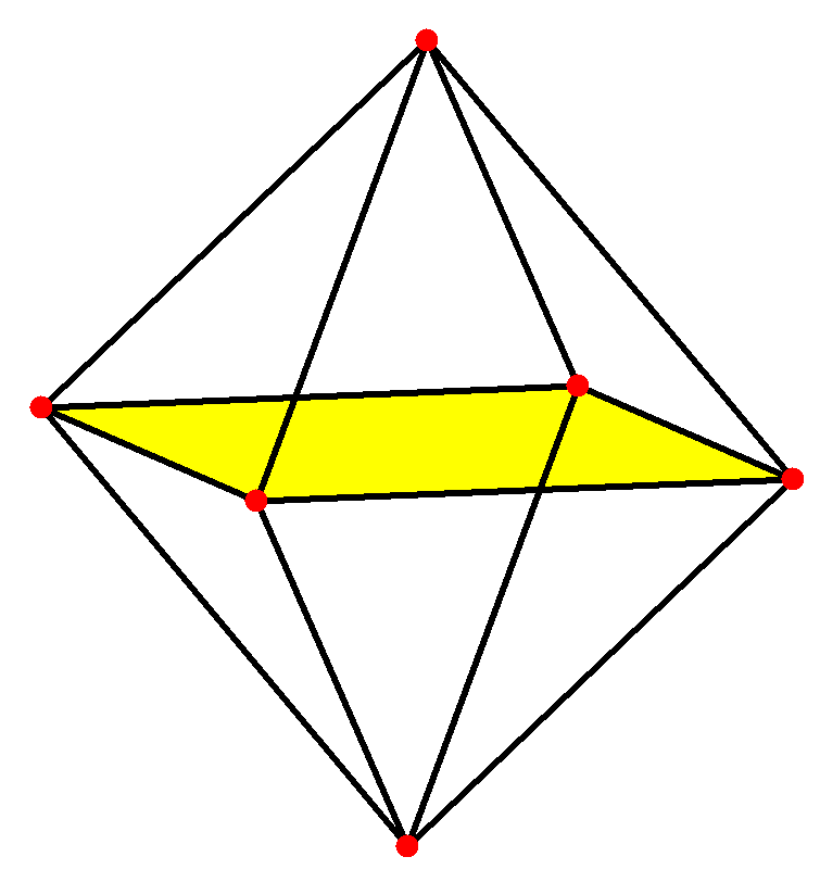 octahedron orthogonal projections